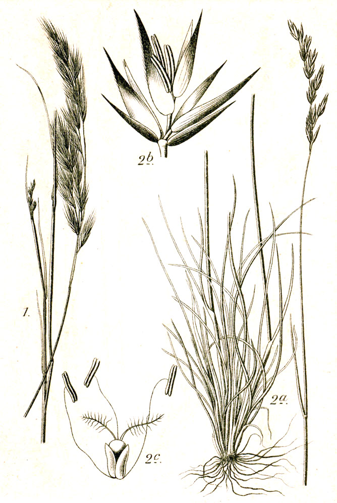 1. Vulpia bromoides (L.) Gray, syn. Festuca sciuroides Roth 2. Festuca ovina L. Original Caption 1. Trespen-Schwingel, Festuca sciuroides Roth 2. Schaf-Schwingel, F. ovina L.